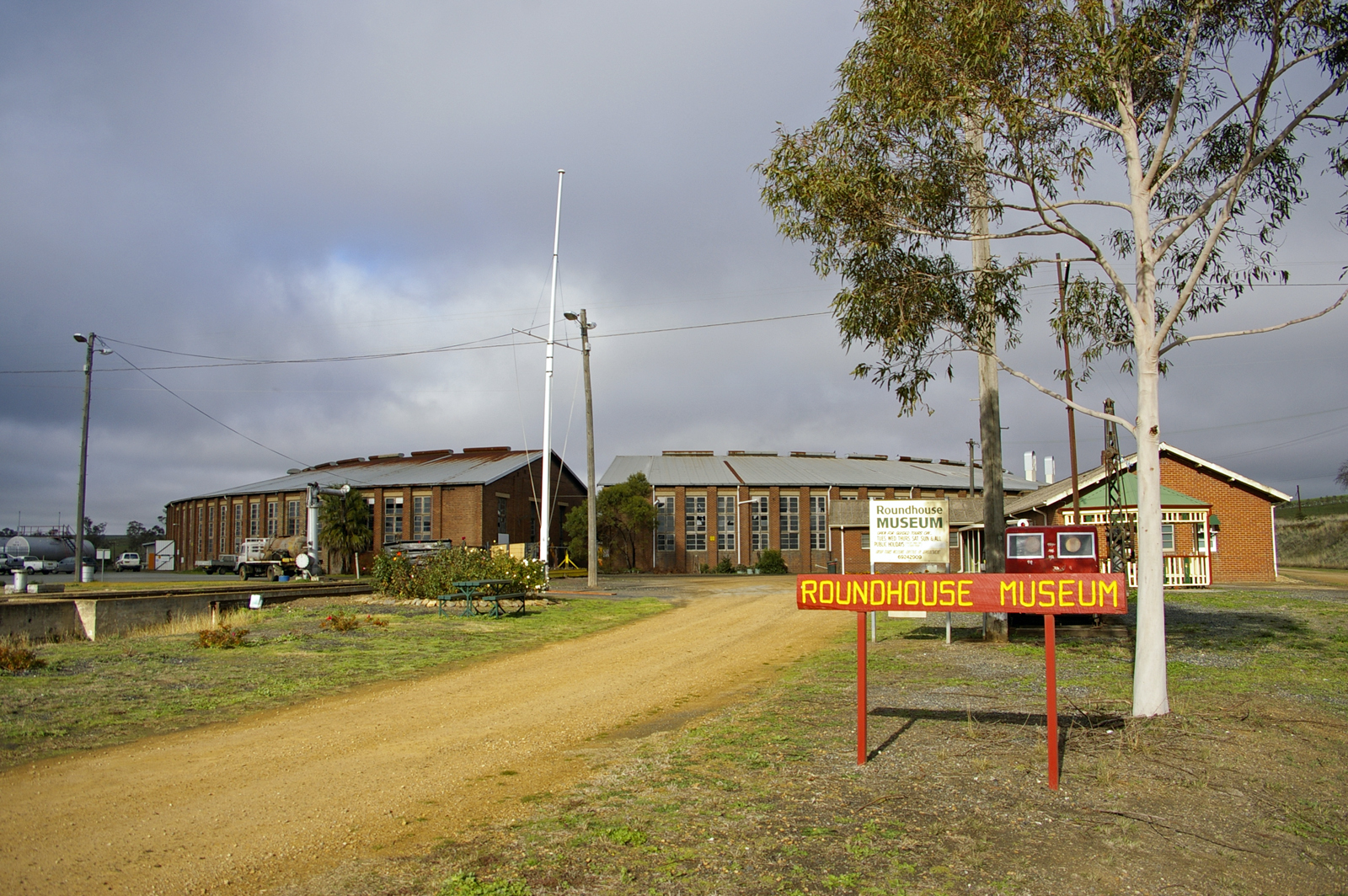 Junee Roundhouse Museum.